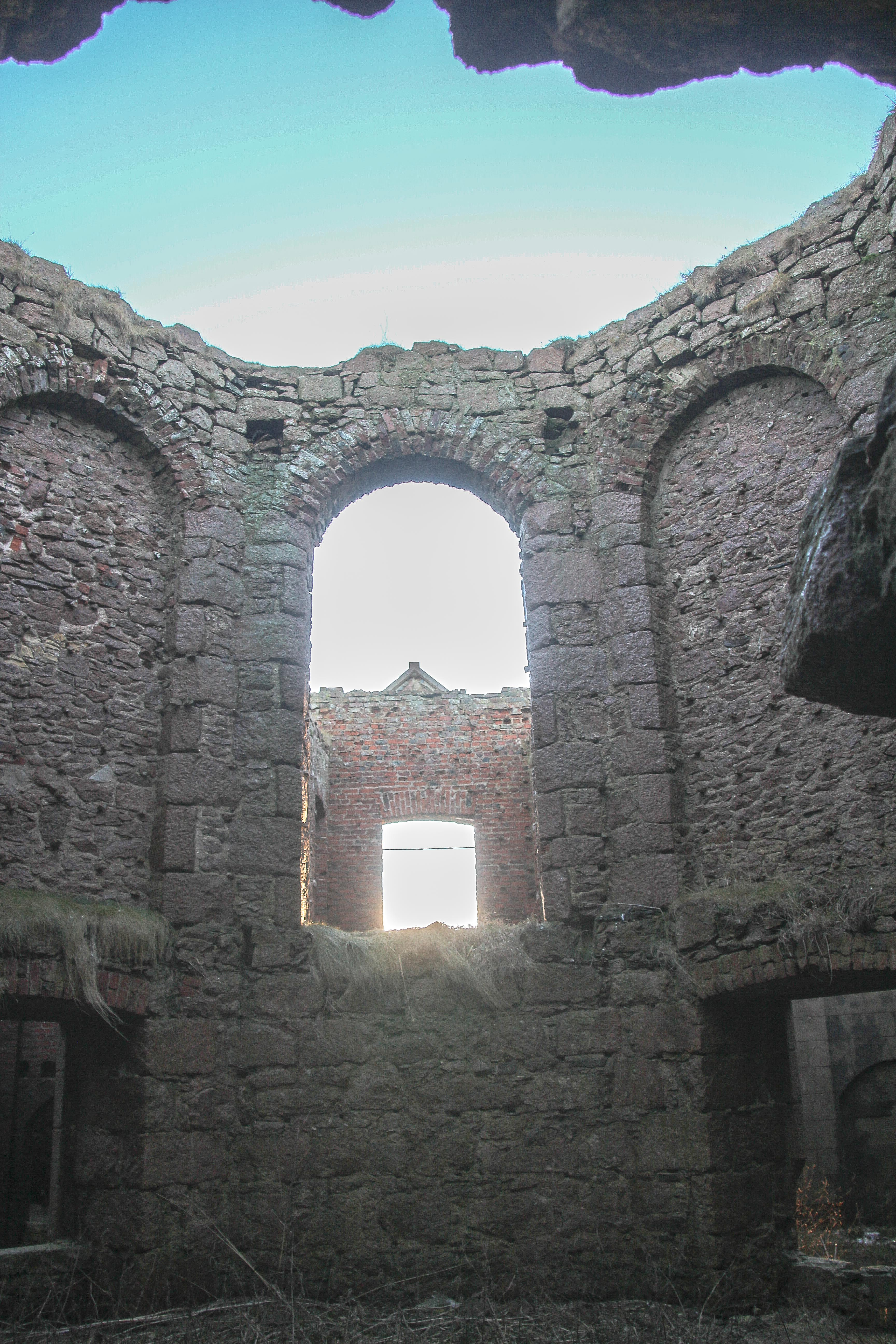 The ruins of the octagonal hall in Slains Castle, and a plausible inspiration for the octagonal room in Castle Dracula.